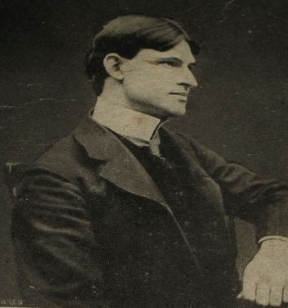 Ed Biddle of the "notorious" Biddle Brothers